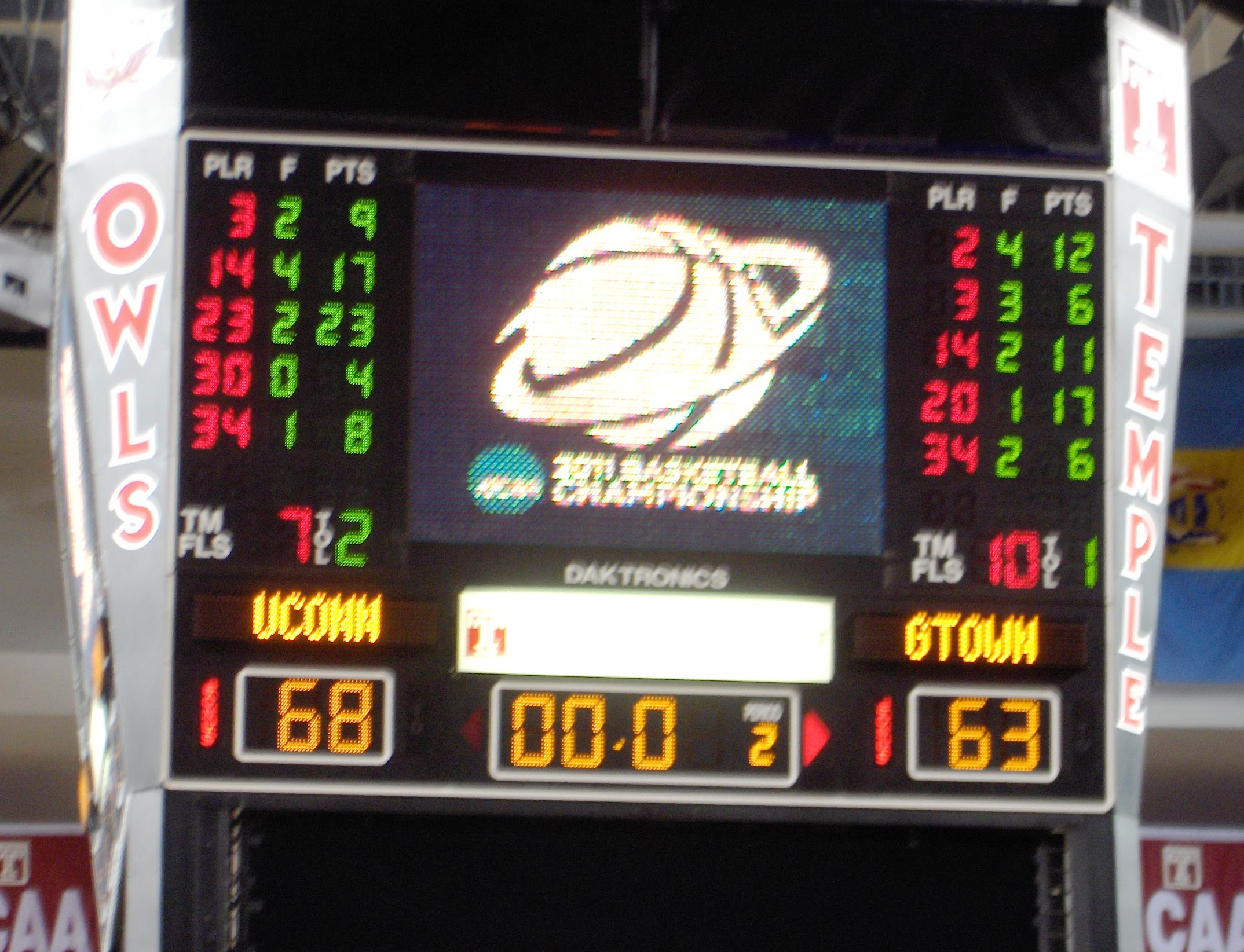 Photo of arena scoreboard at conclusion of 2011 Philadelphia regional semifinal between Connecticut and Georgetown